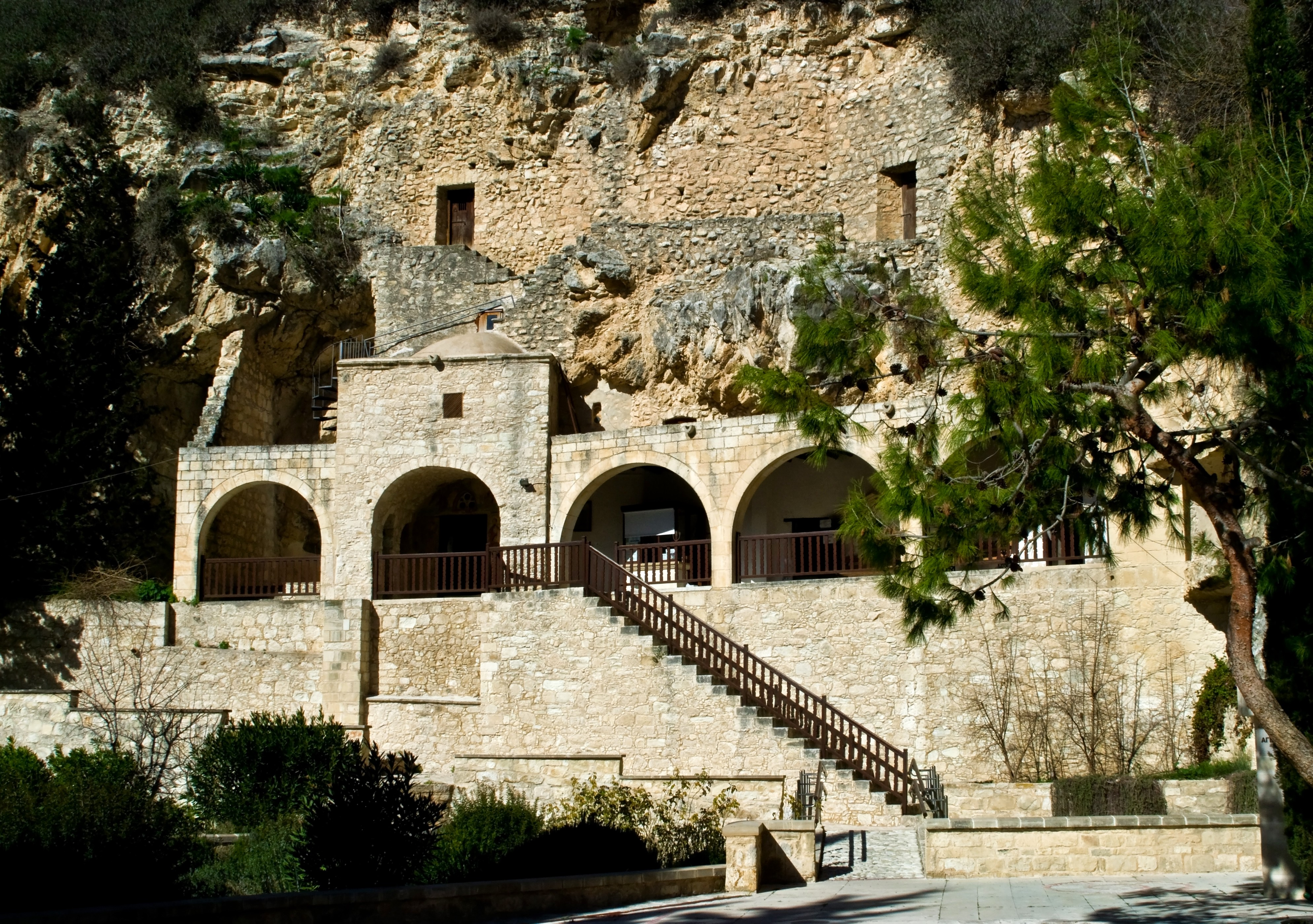 Monastery of Agios Neophytos near Tala village, Cyprus.